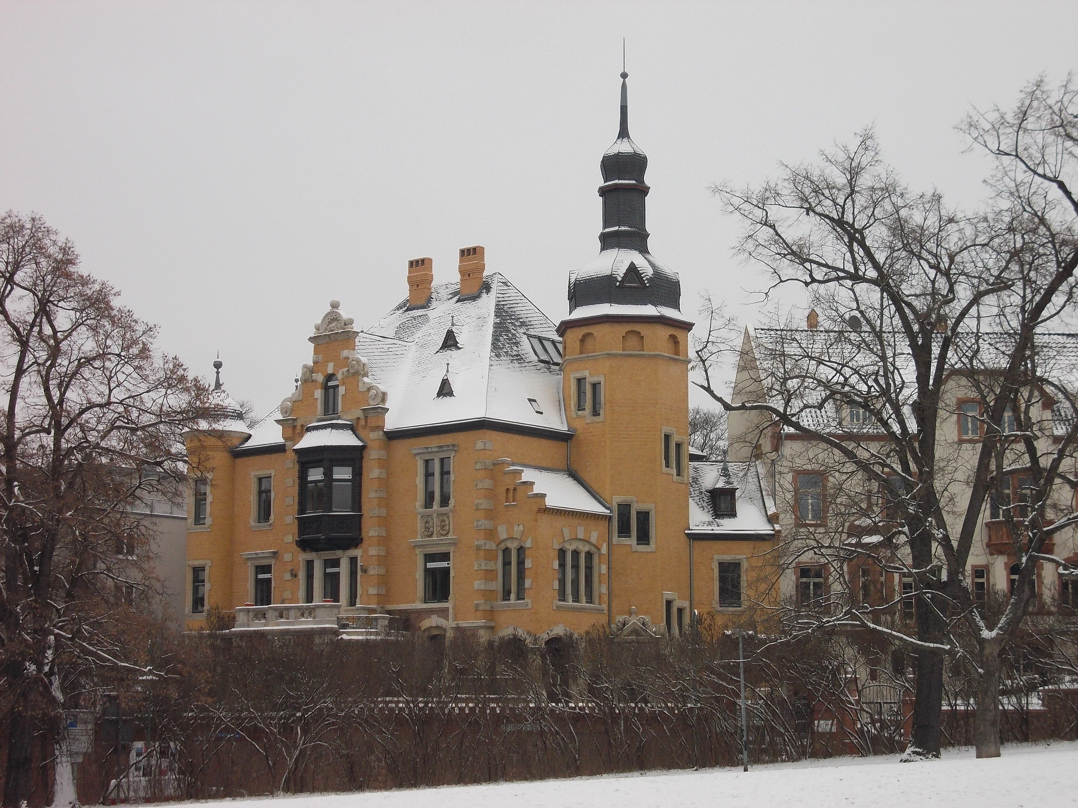 Villa next to the municipal parc, Strasse der Opfer des faschismus No. 3 in Halle/Saale (Saxony-Anhalt)